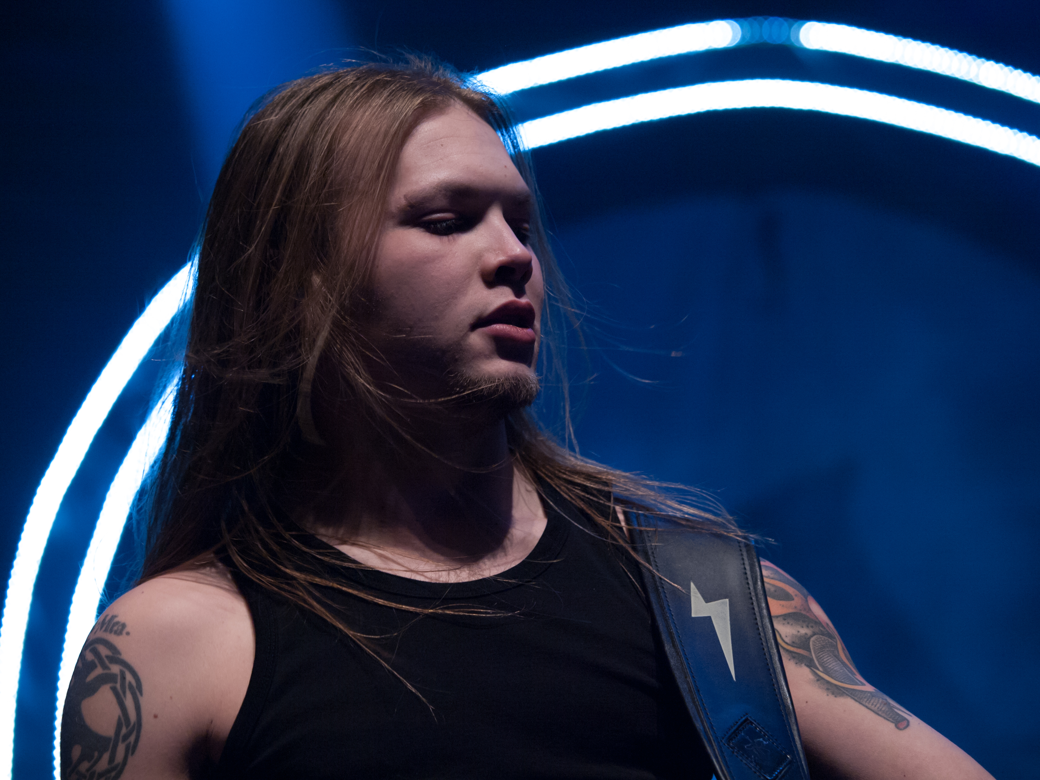 Amoral live at Finnish Metal Expo 2012 in Helsinki